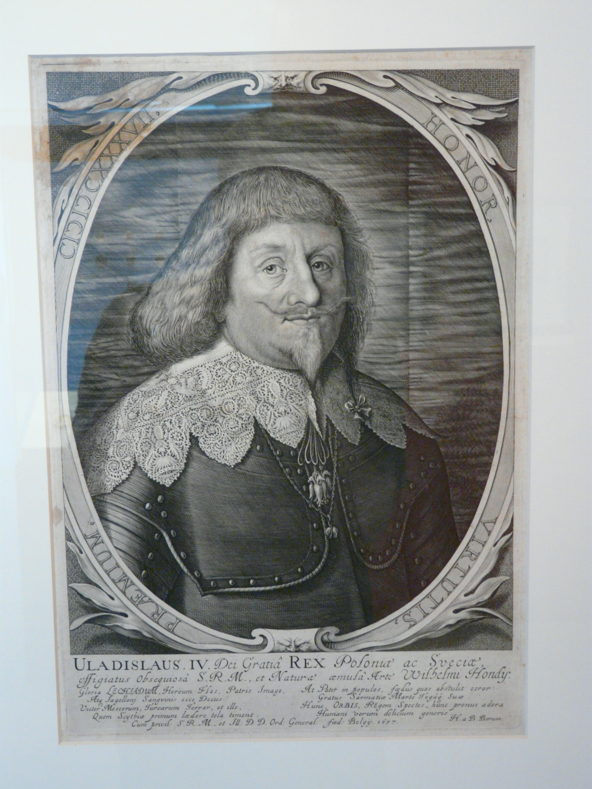 From the collection of the National Museum in Poznań. Wladislaus IV of Poland. 1637. Wilhelm Hondius.